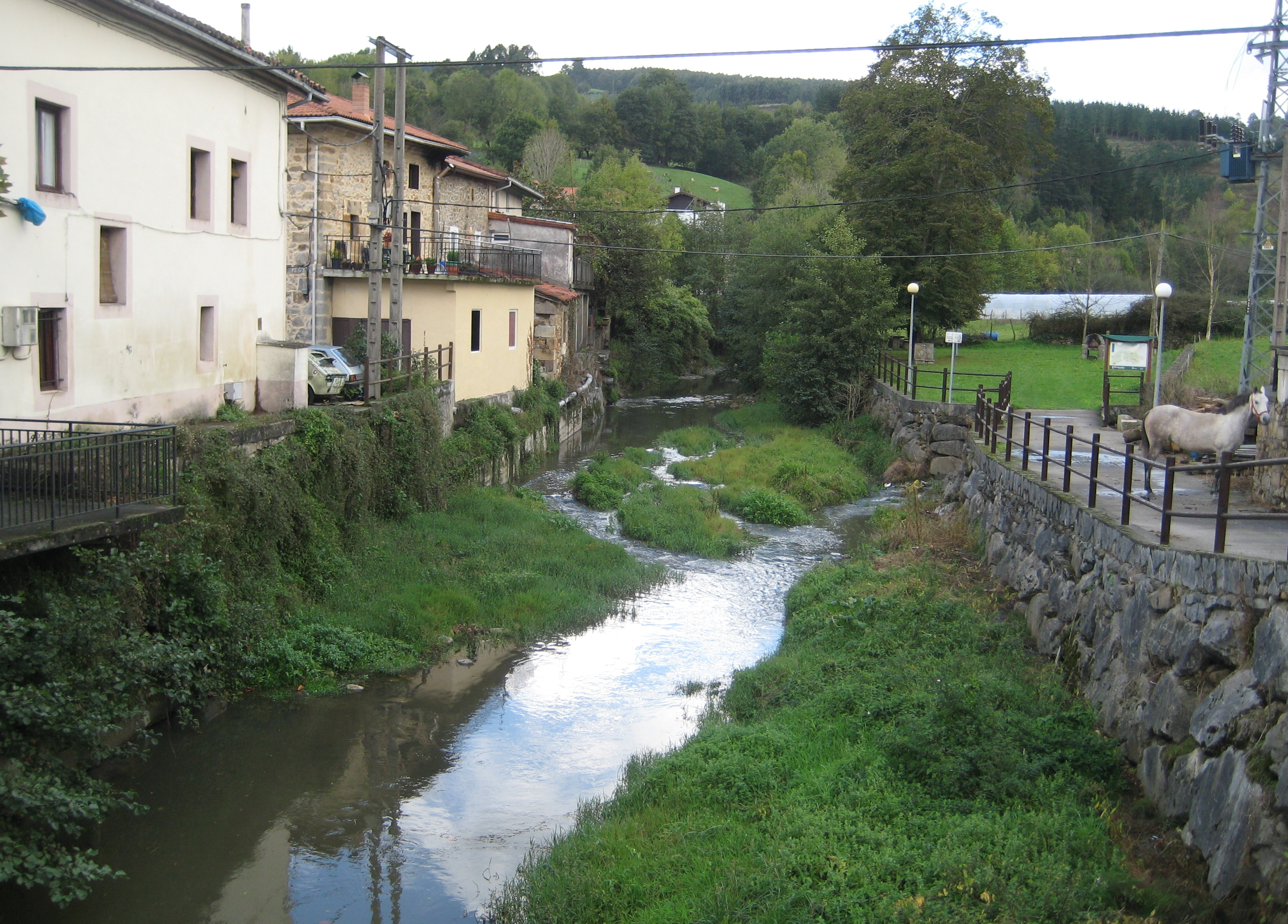 River Agüera in the village of La Iglesia, in Trucios / Trucíos / Turtziotz, Biscay.